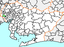 Position of former Saya town (佐屋町), Aichi, Japan